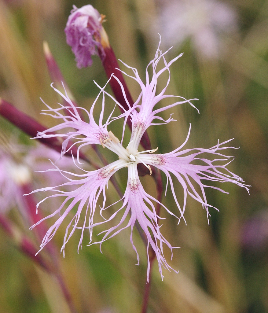 Dianthus superbus, Hohenloher Land, Germany